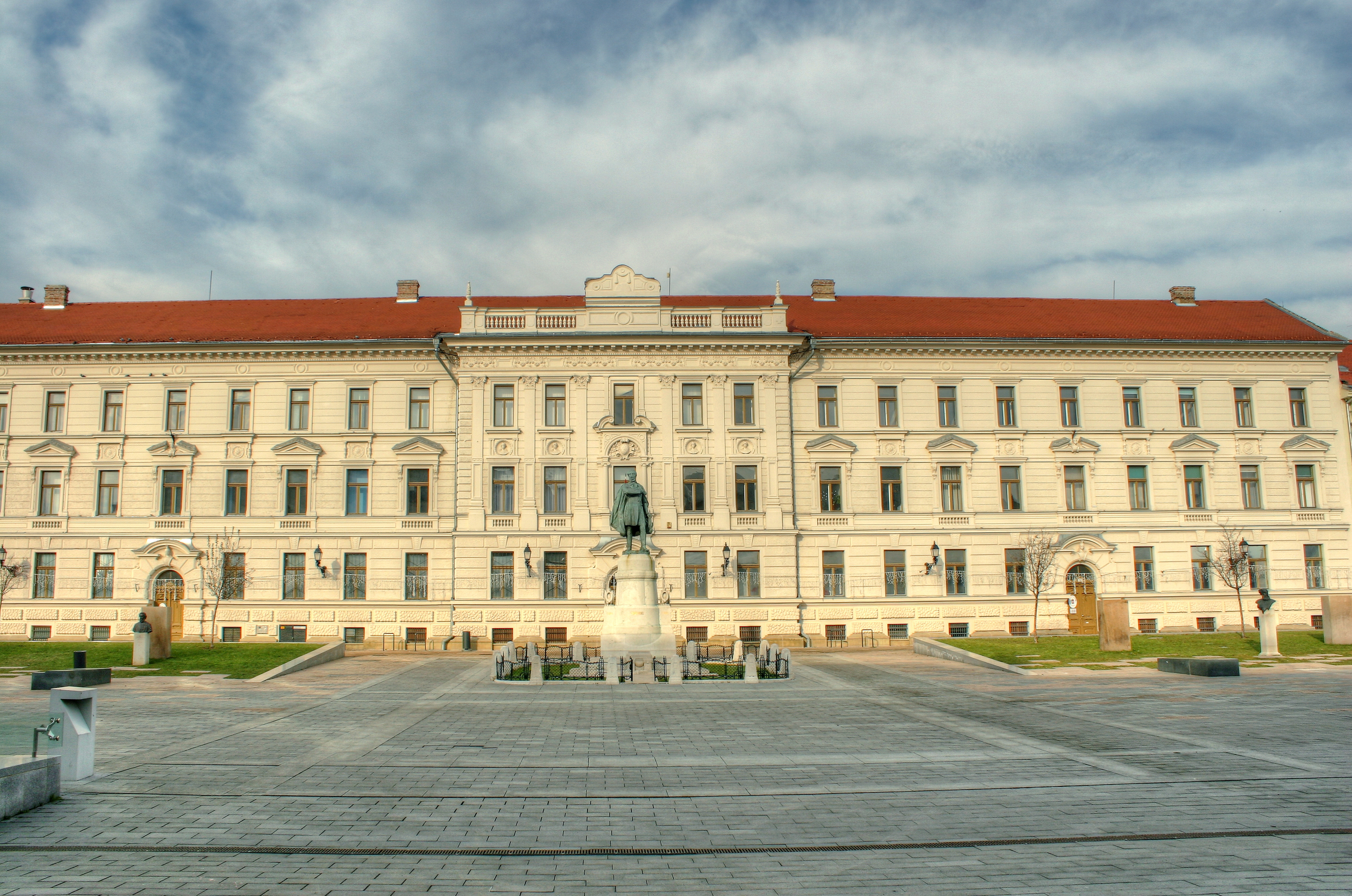 Kossuth tér (Kossuth square), Pécs